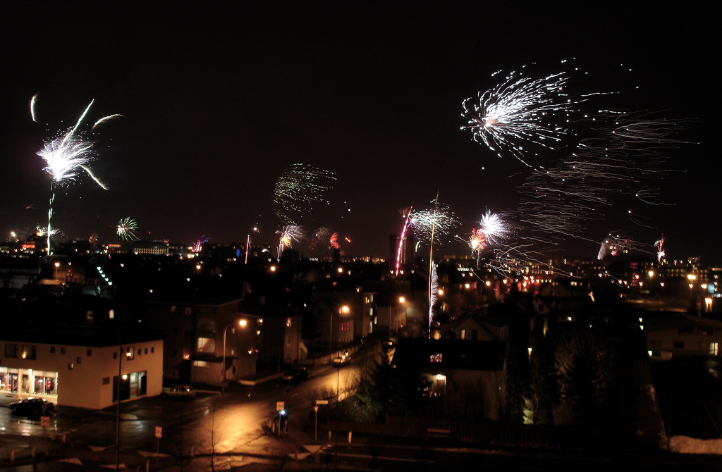 Fireworks over Reykjavik on New Year's Eve